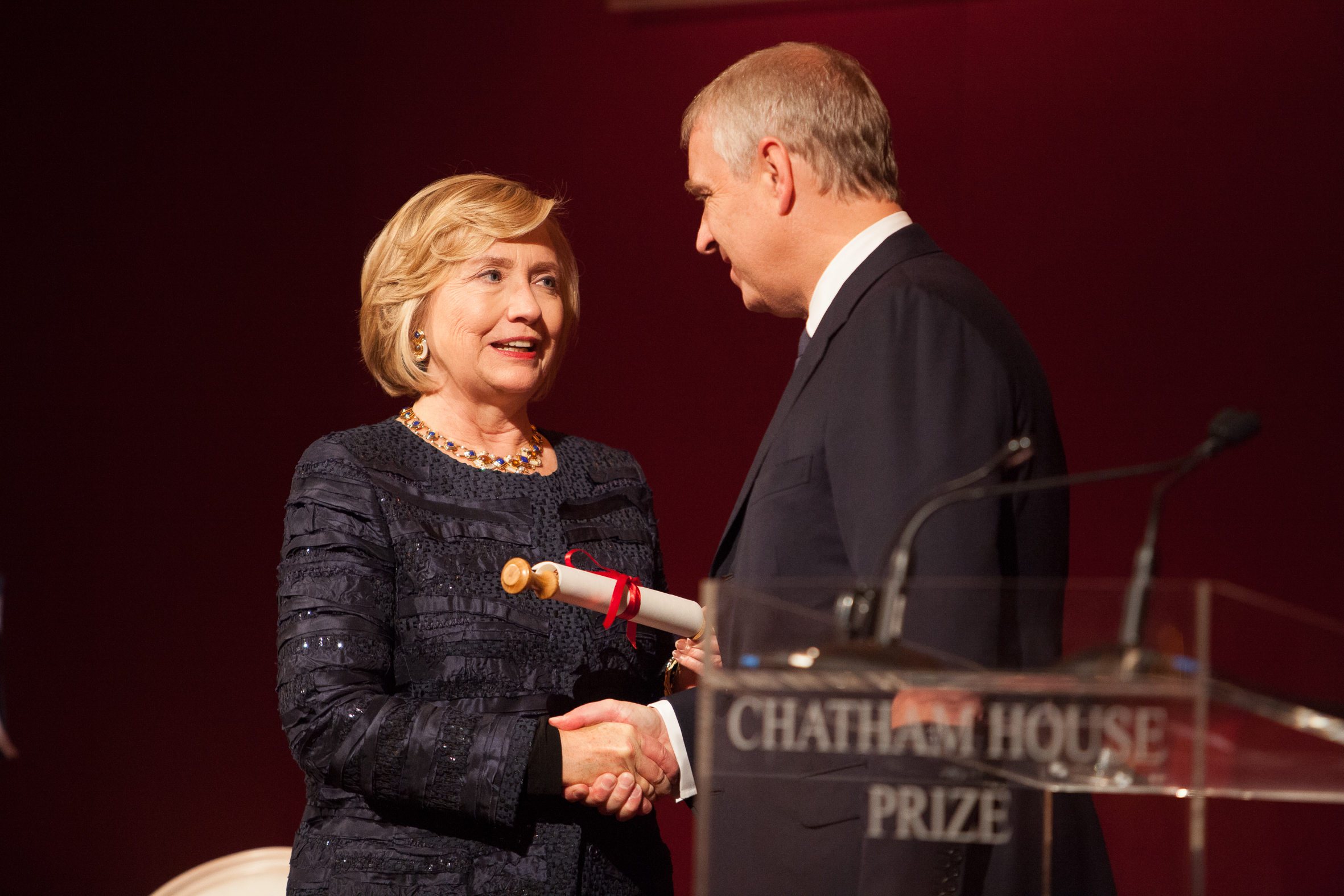 11 October 2013 cht.hm/XVYPy2